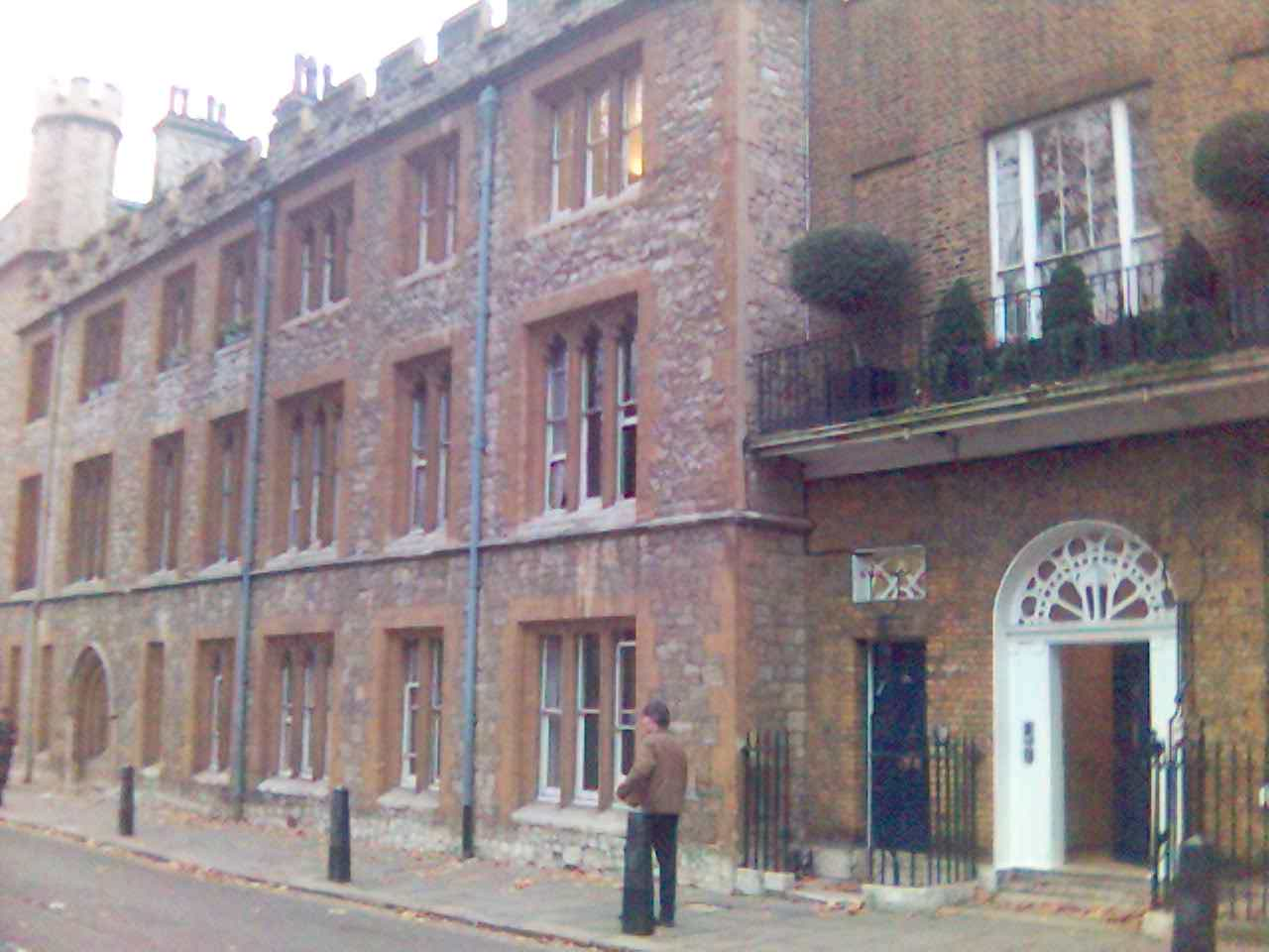 An image of Liddell's House and the reception of Westminster School